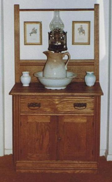 Washstand (cupboard), oak, with pitcher and towel rack.